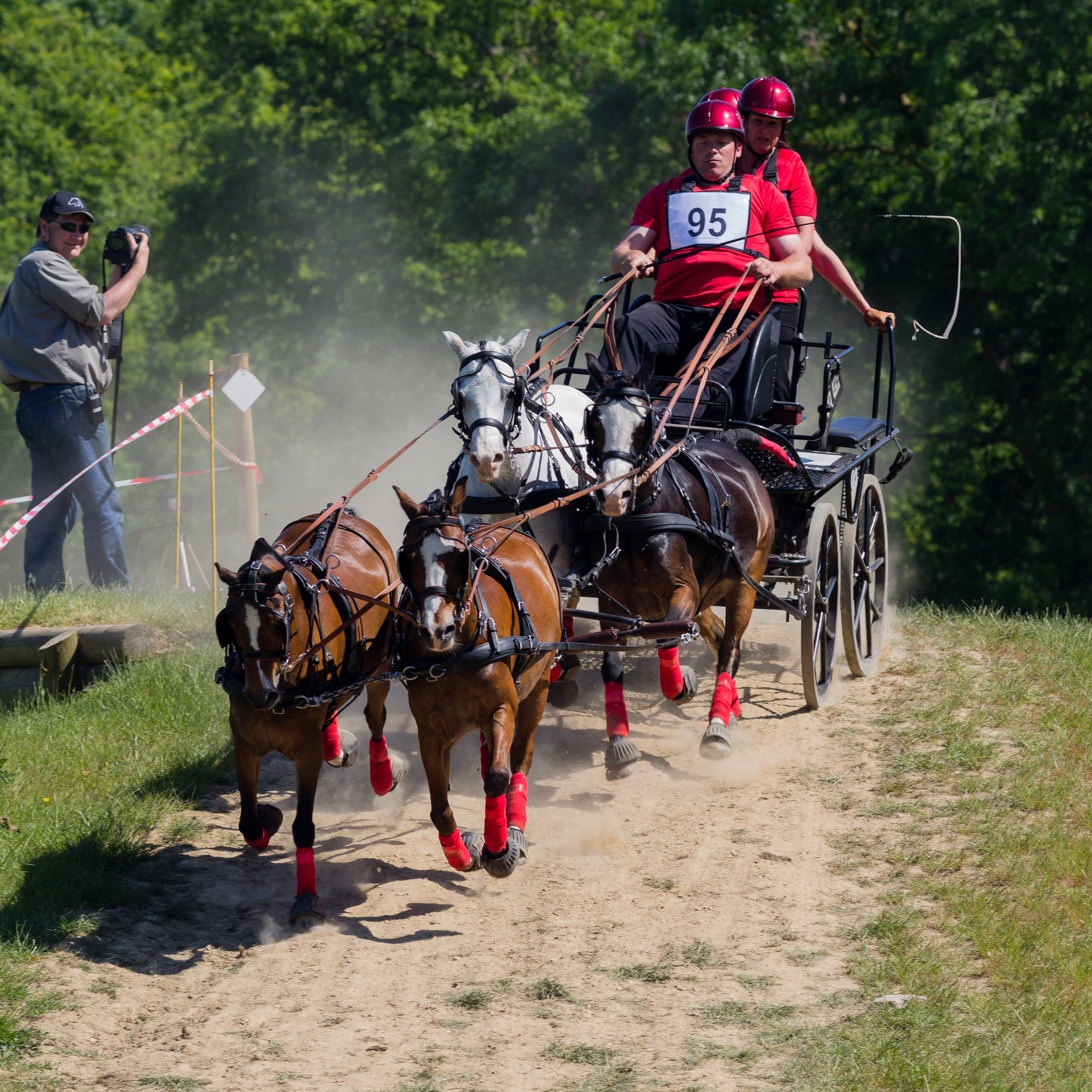 Carriage of driver Mickaël Thibaud (Amateur 1 GP Poney Team) in the 2014 national Elite combined driving competition in Rennes during the marathon phase. Carriage is drawn by two Welsh Moutain Pony mares and two geldings.